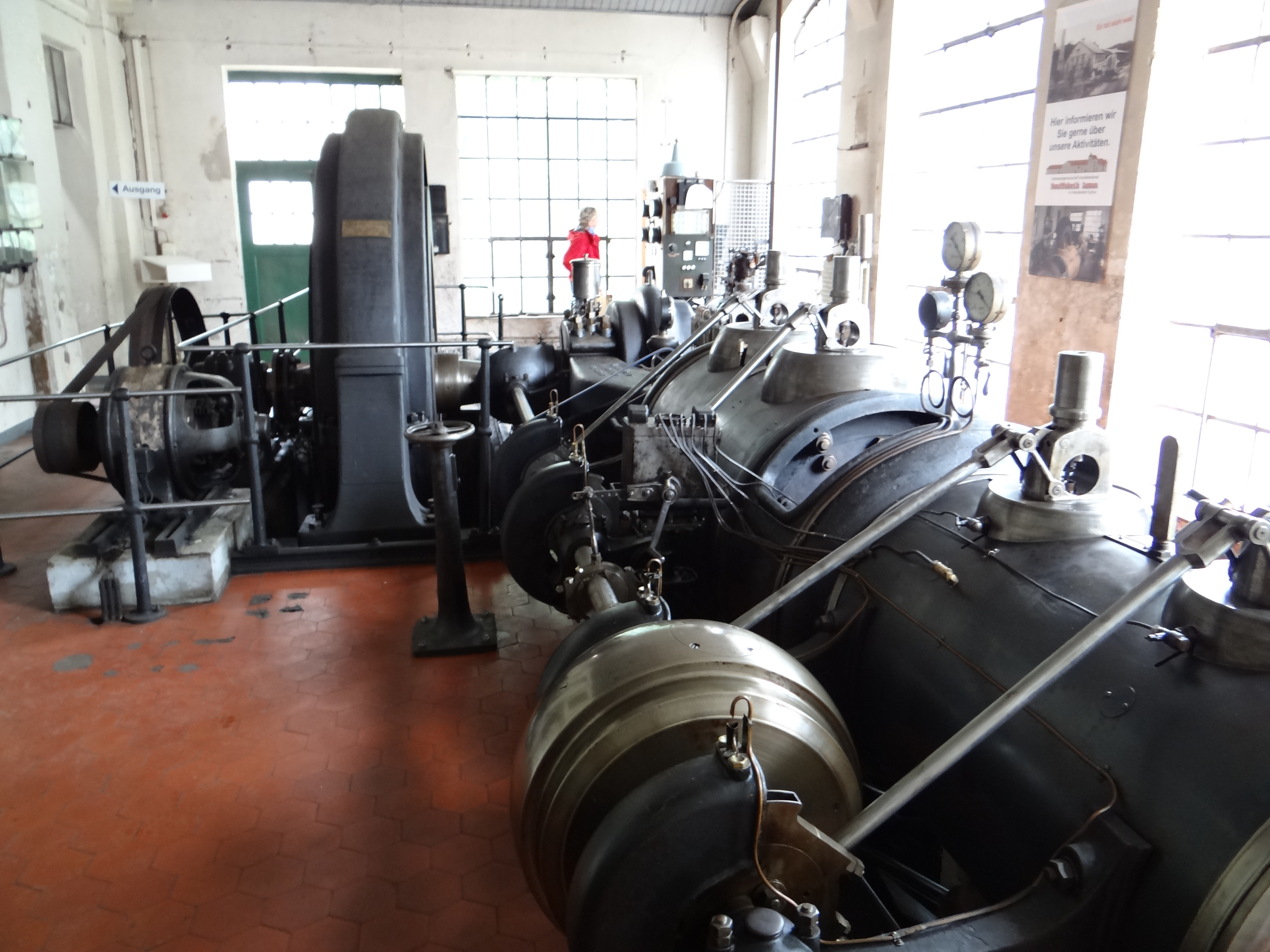 Steam engine and generator in Eystrup, Germany.